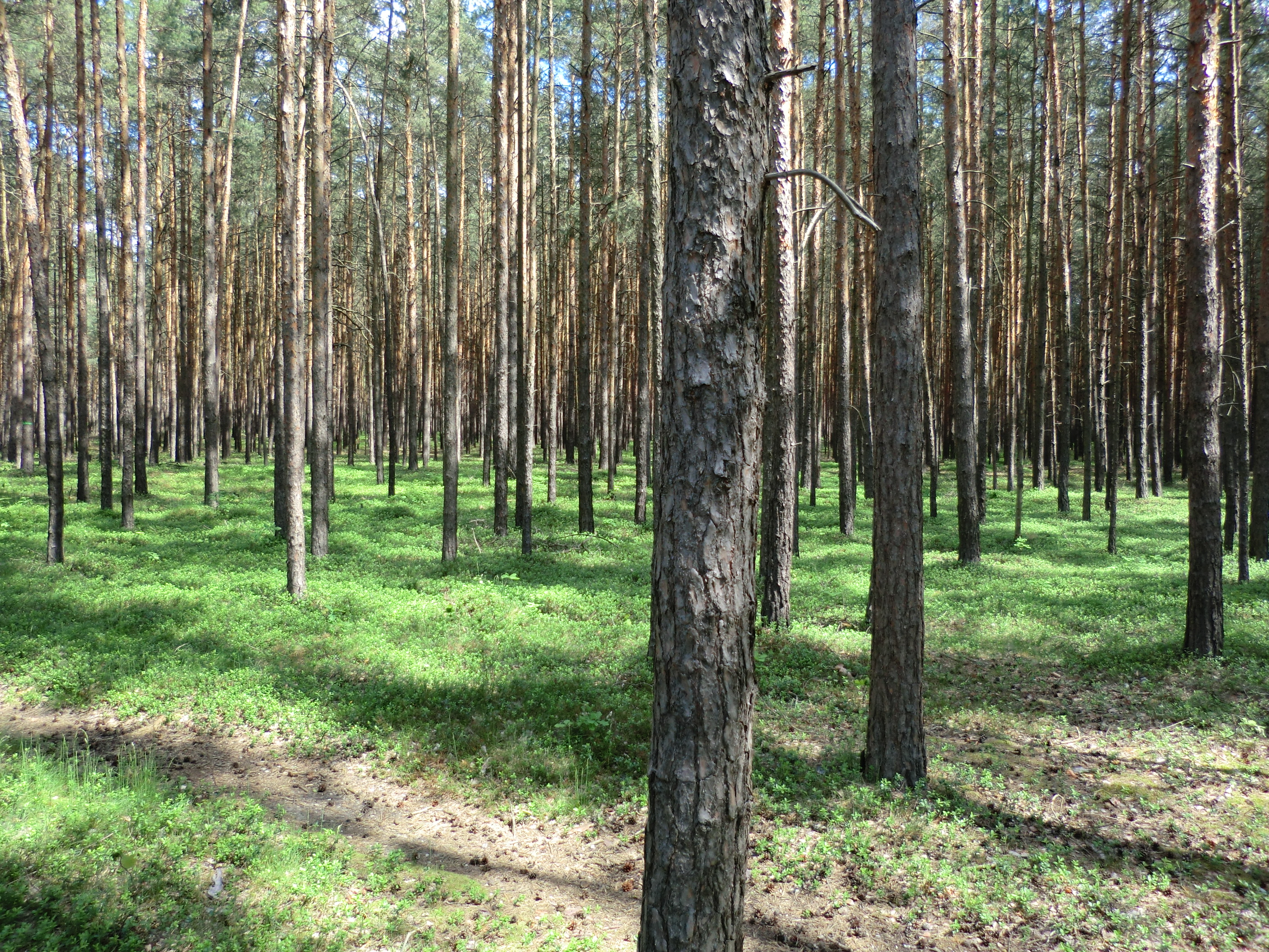 Forest, Pines